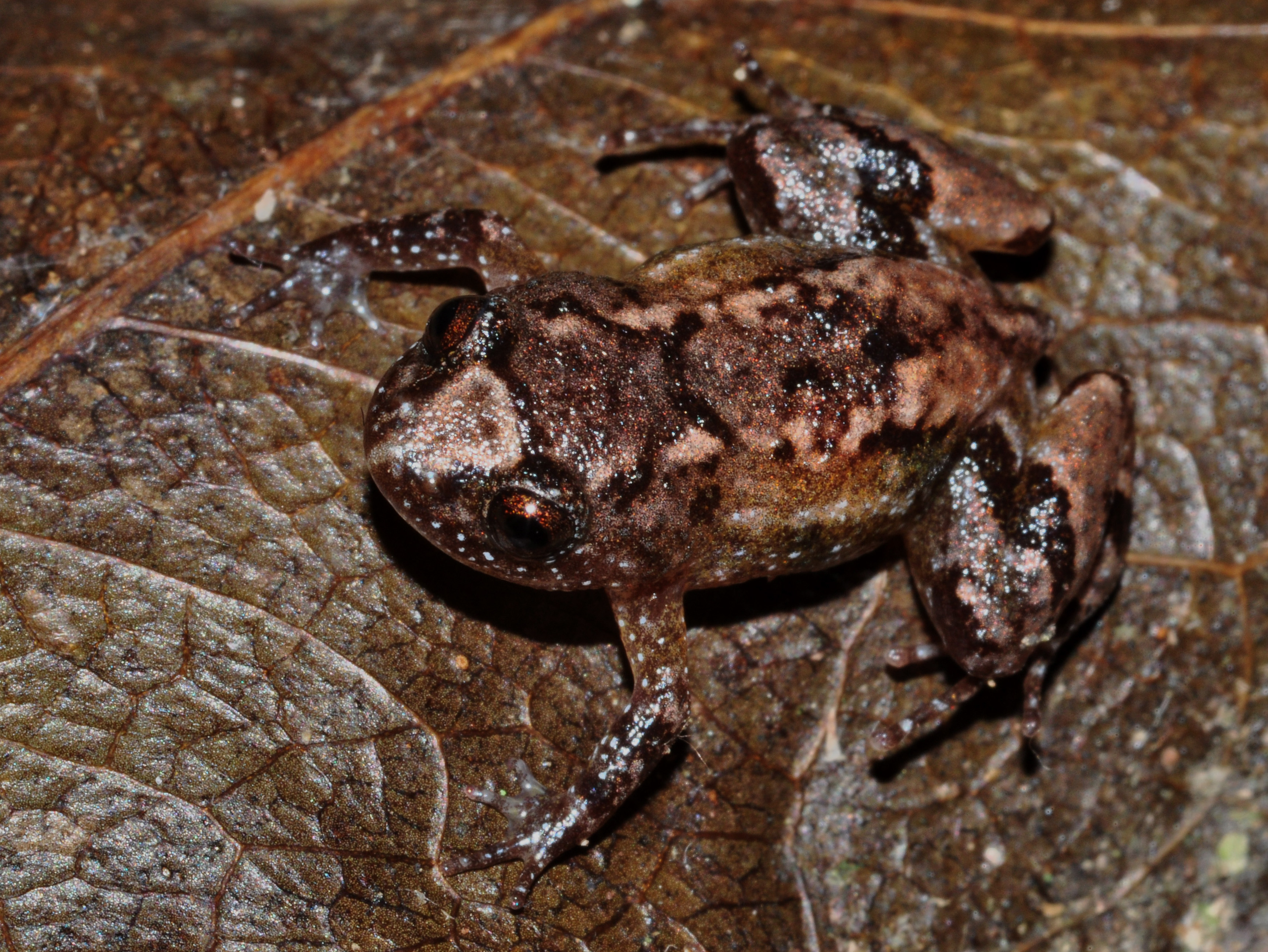 Dorsal View